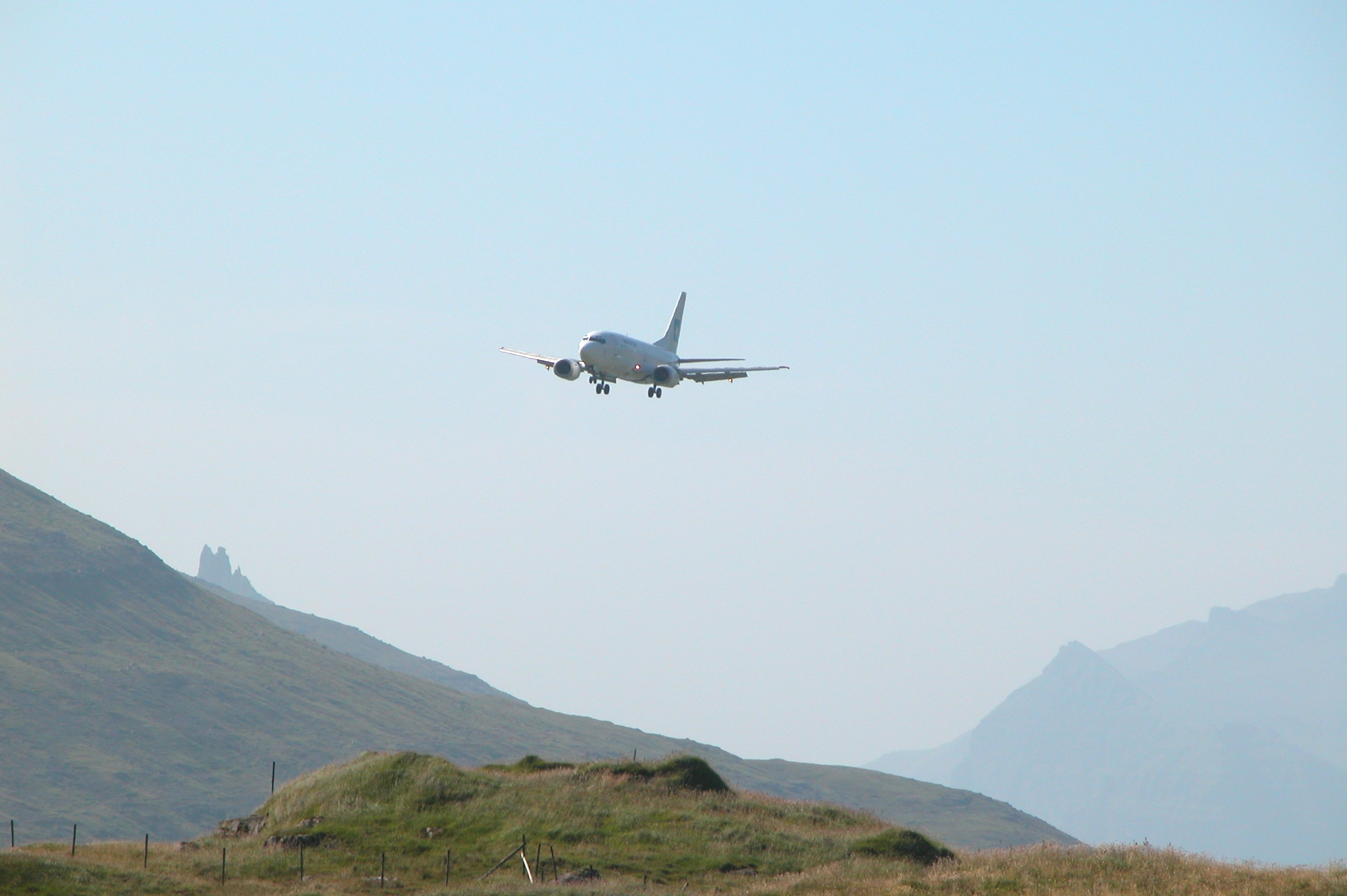 Plane landing Vágar Airport on Vágar, Faroe Islands.